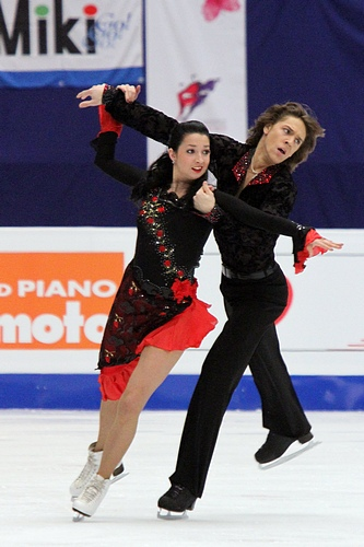 Ksenia Monko / Kirill Khaliavin at the 2010-2011 Junior Grand Prix of Figure Skating Final.